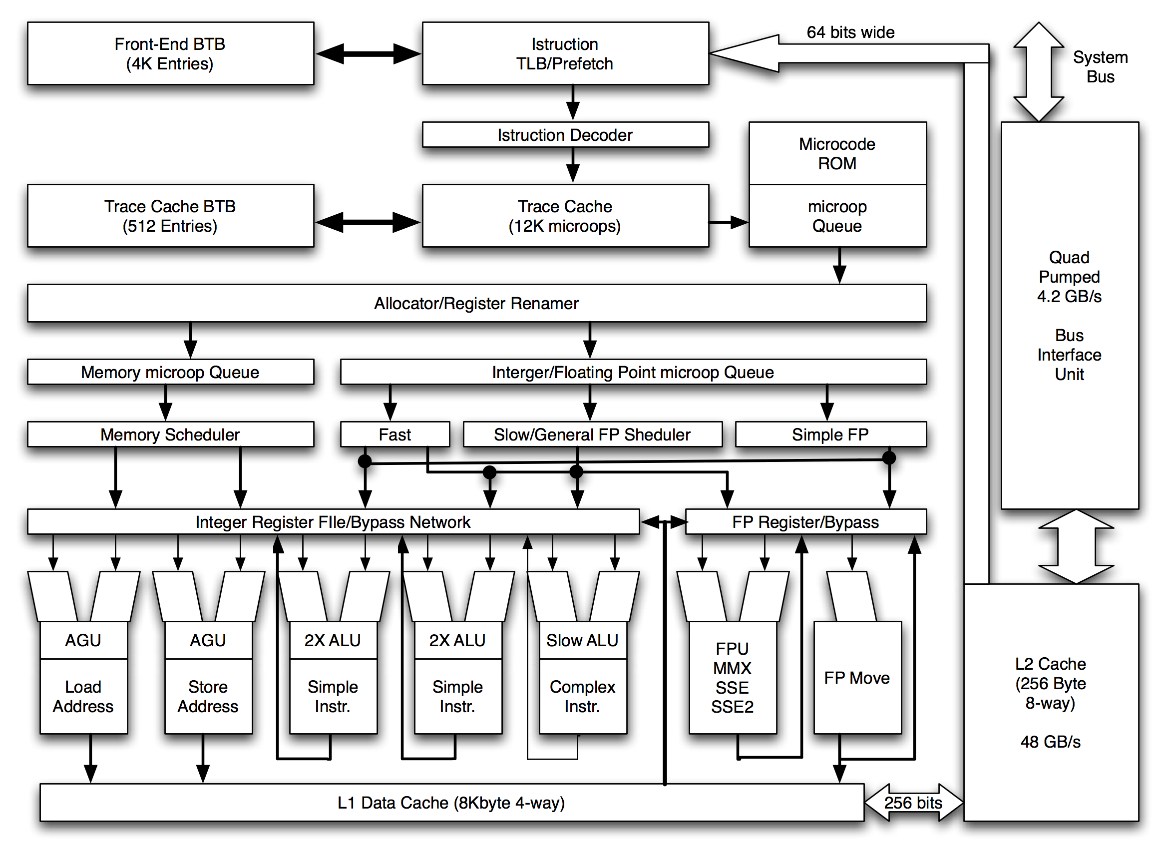 Architettura Intel Pentium 4